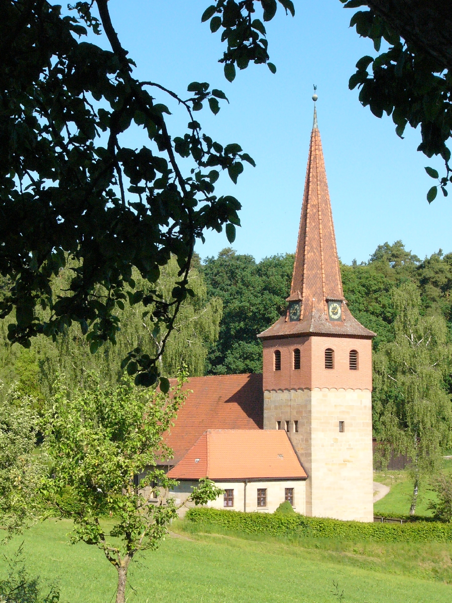 Christ Church Unterrottmannsdorf near Lichtenau